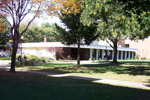 Science Building and Forker Laboratory on the Penn State Shenango Campus in Sharon, PA.